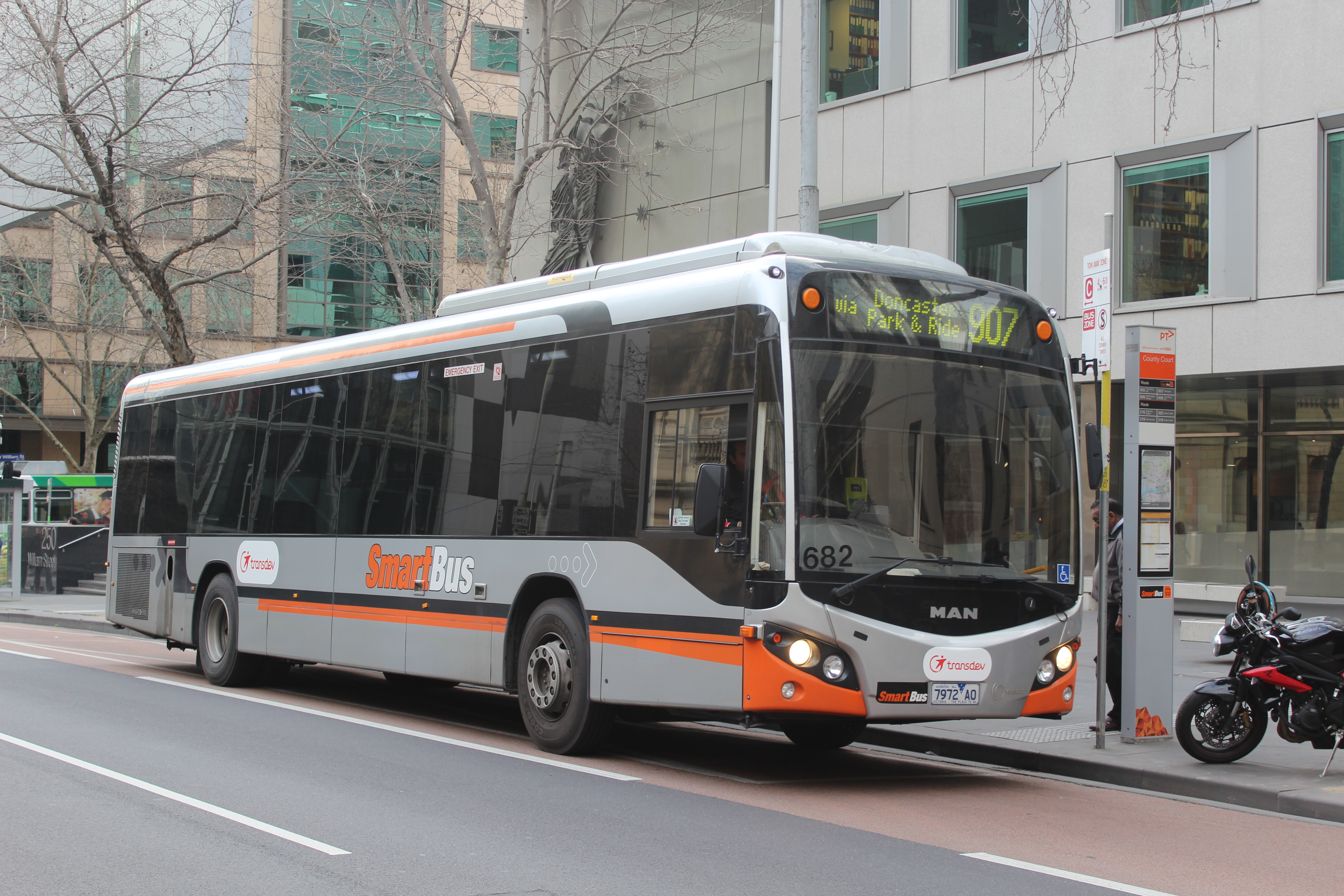 SmartBus (Transdev) number 682 (7972AO) MAN on route 907 in Lonsdale St, 2013